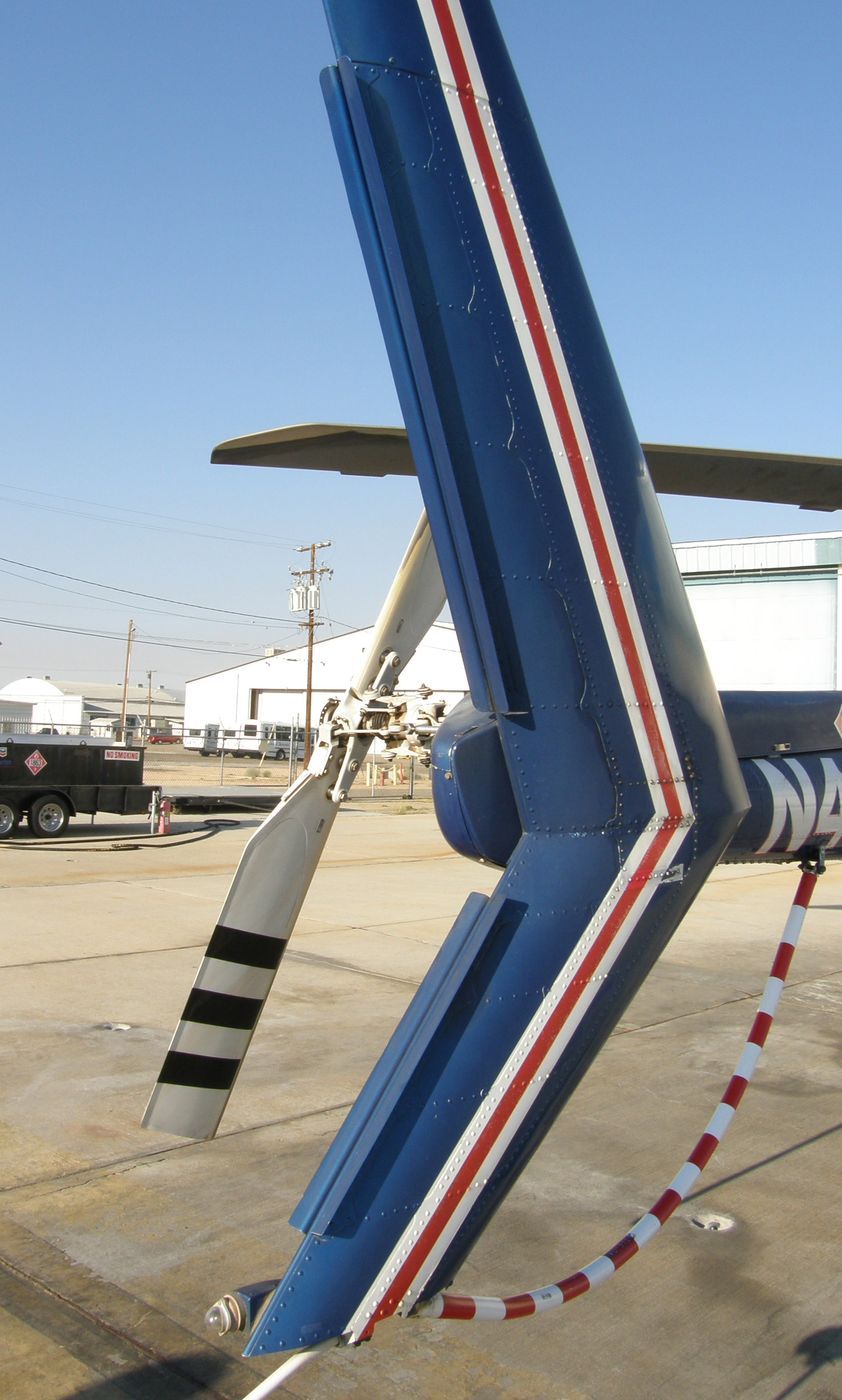 Double Gurney flaps on the vertical stabilizer of a Bell 222U